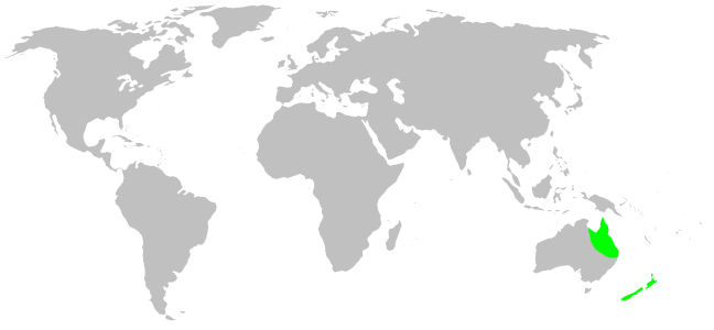 Periegopidae habitat distribution, drawn after Platnick: World Spider Catalog 7.0. This is not a precise rendering of the distribution! If you have better information, please replace this map, or send me the info, and i will redraw it.